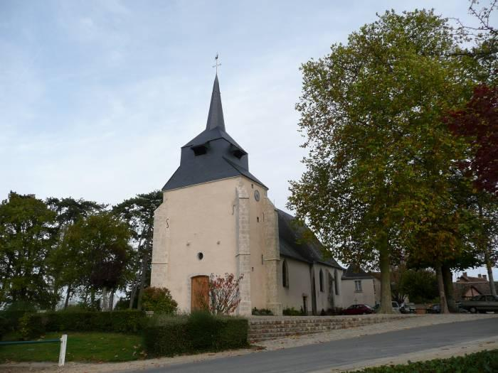 Eglise Saint-Caprais d'Yvoy-le-Marron